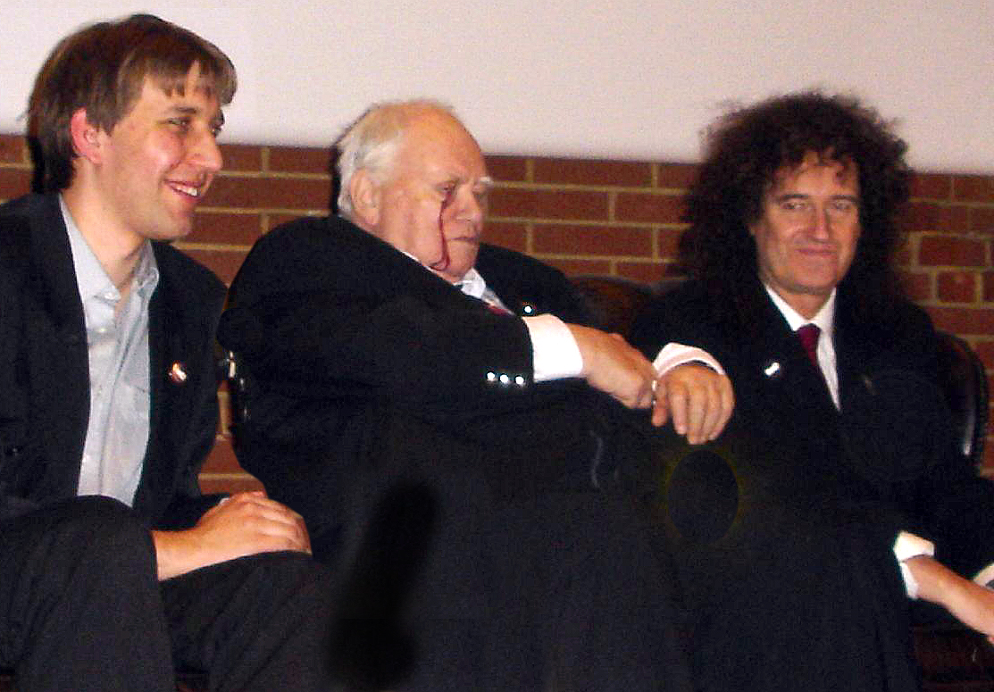 British amateur astronomer Sir Patrick Moore (center), with co-presenter Chris Lintott (left), and the astrophysicist guitarist Brian May (right)